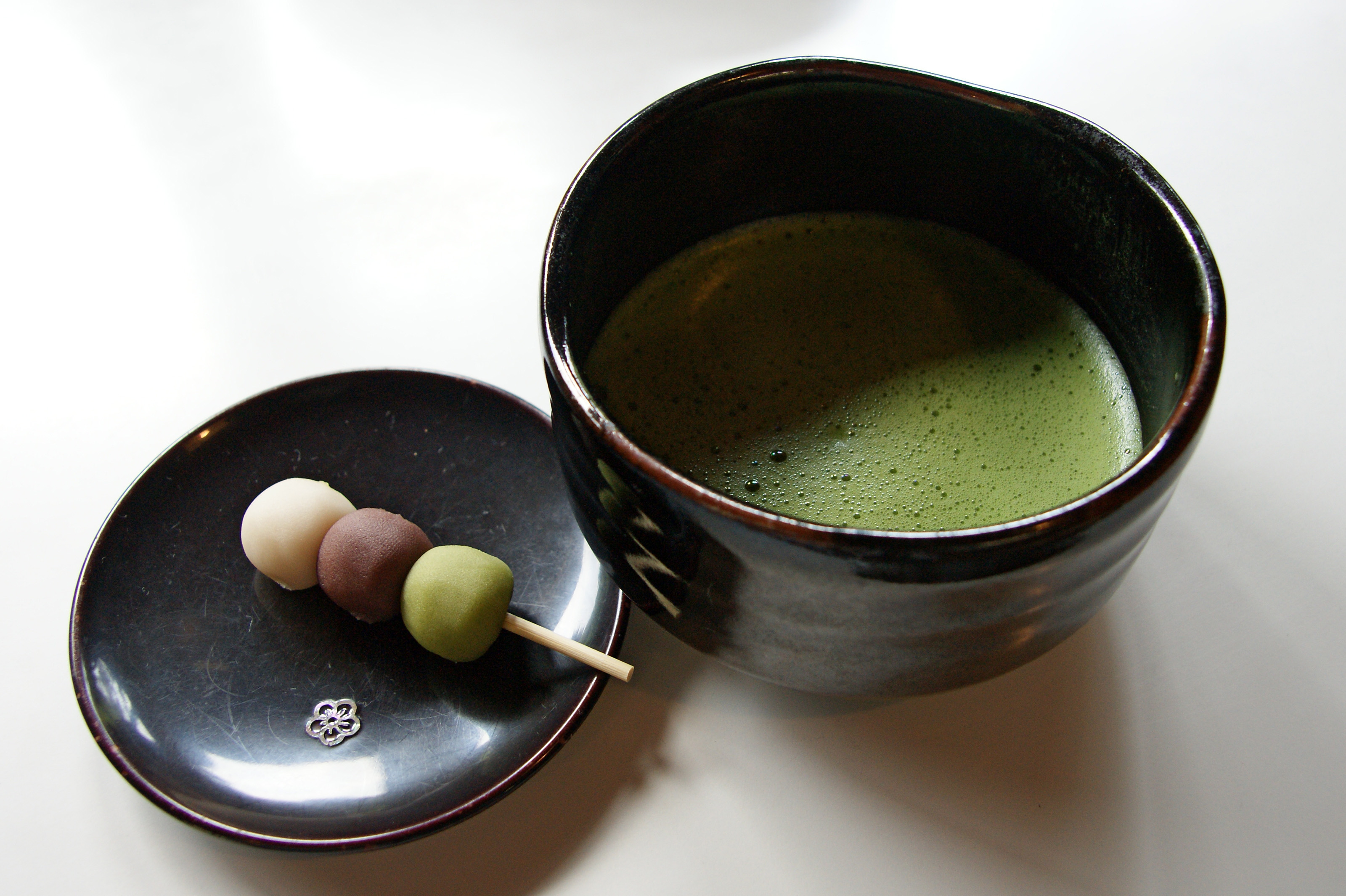 Utsubuki Park in Kurayoshi, Tottori prefecture, Japan